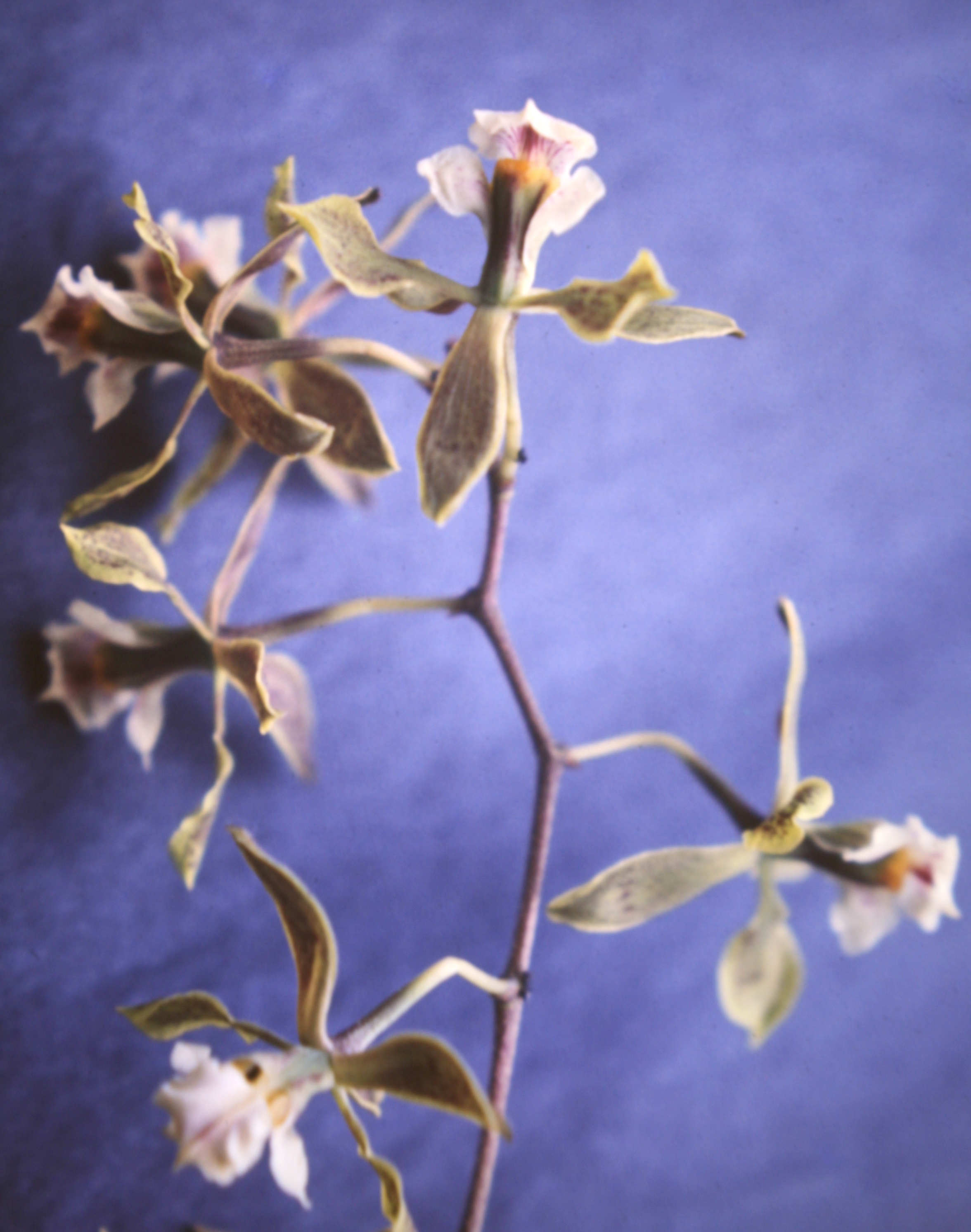 Encyclia selligera (??), Suriname. NOTE: Identification of photos not sure. According to the "CHECKLIST OF THE PLANTS OF THE GUIANAS" (1997), p. 161 to be downloaded here "not in Guianas"; Kew's "World checklist..." gives: "Bahamas, Mexico (Chiapas) to C. America". i. e. not in Suriname.